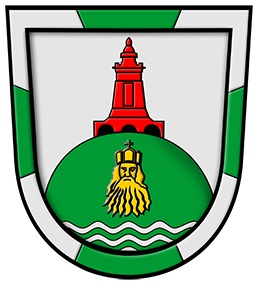 Coat of Arms of Kyffhäuserland